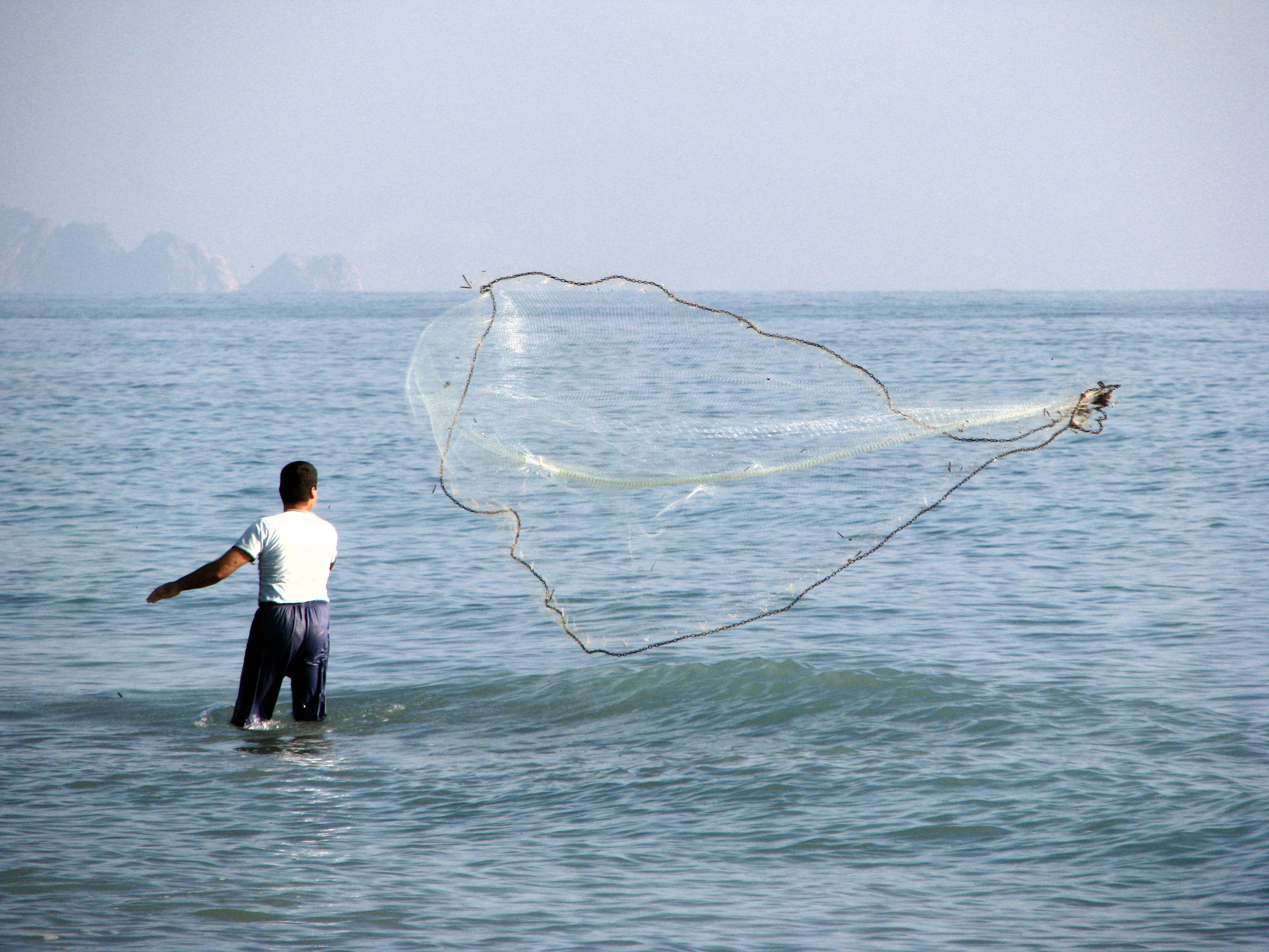 Ametour fishing in Payallar Alanya